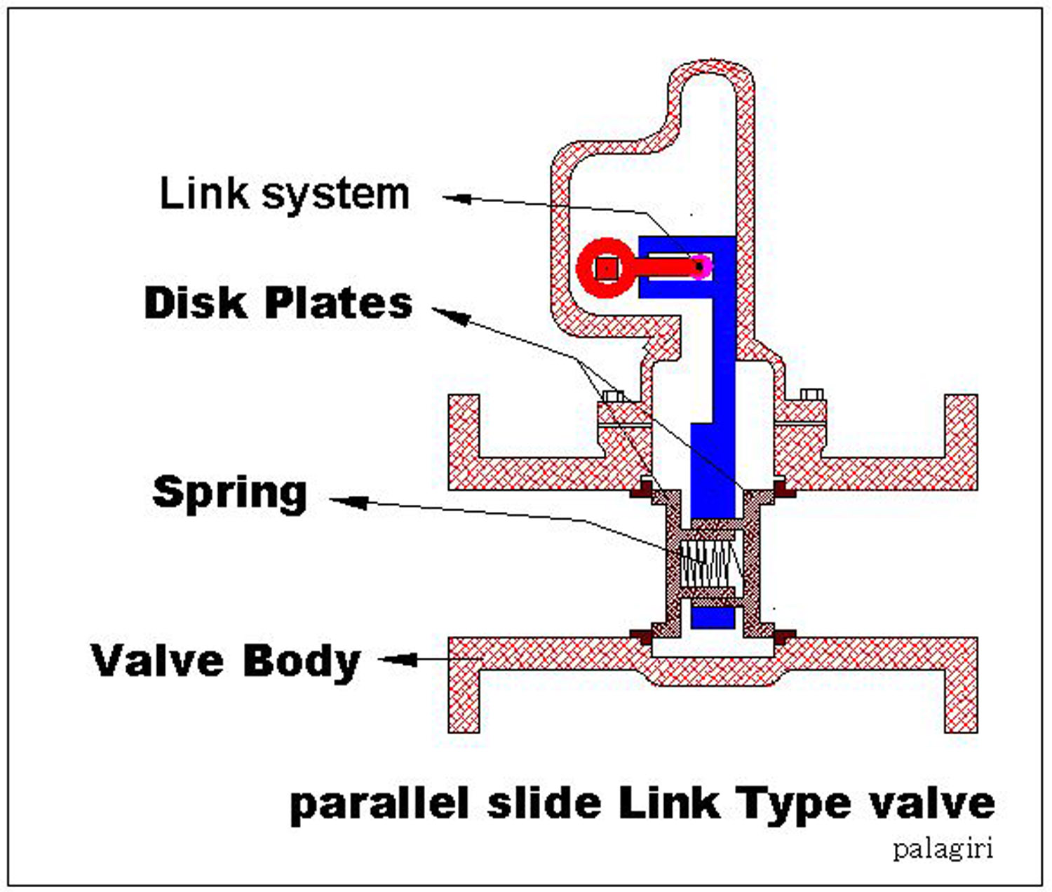 Link type blowdown valve.It is used as blowdown vale in Boilers